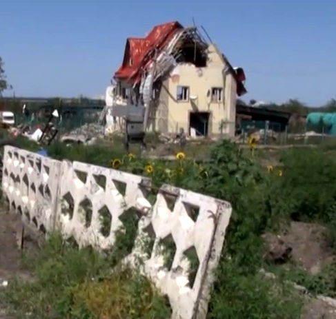 The house in Donbass, Ukraine, damaged by artillery shelling during the war hostilities, July 22, 2014.